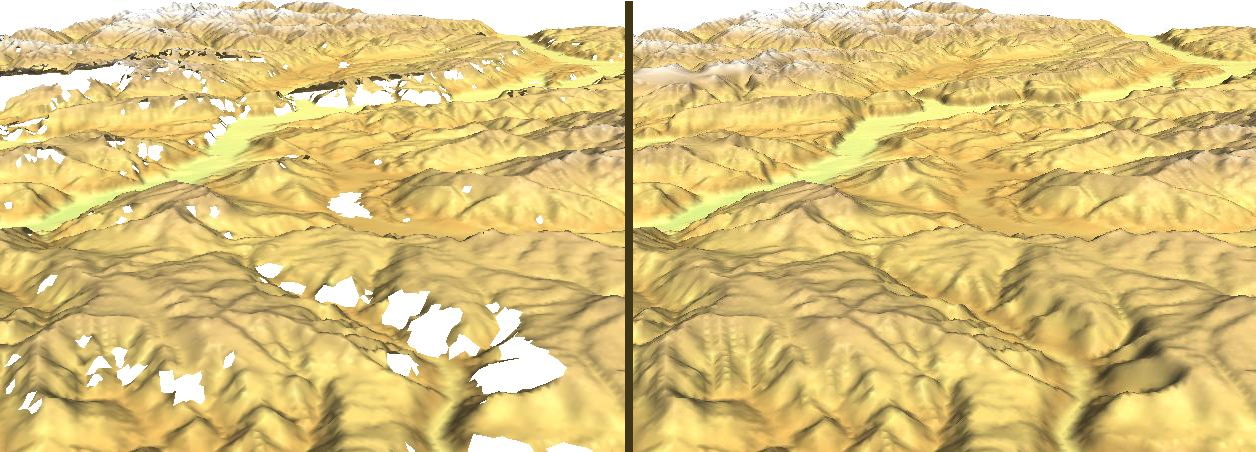 Void filling of SRTM DEM data with splines in GRASS GIS